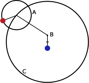 Circle A is the epicycle, point B is the equant, and circle C is the deferent.